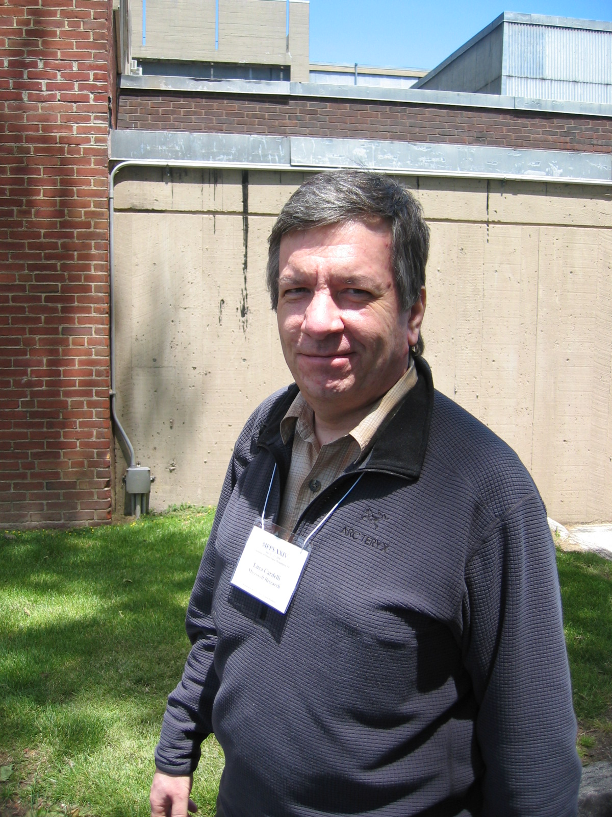 Luca Cardelli, Mathematical Foundations of Programming Semantics, Philadelphia, May 2008